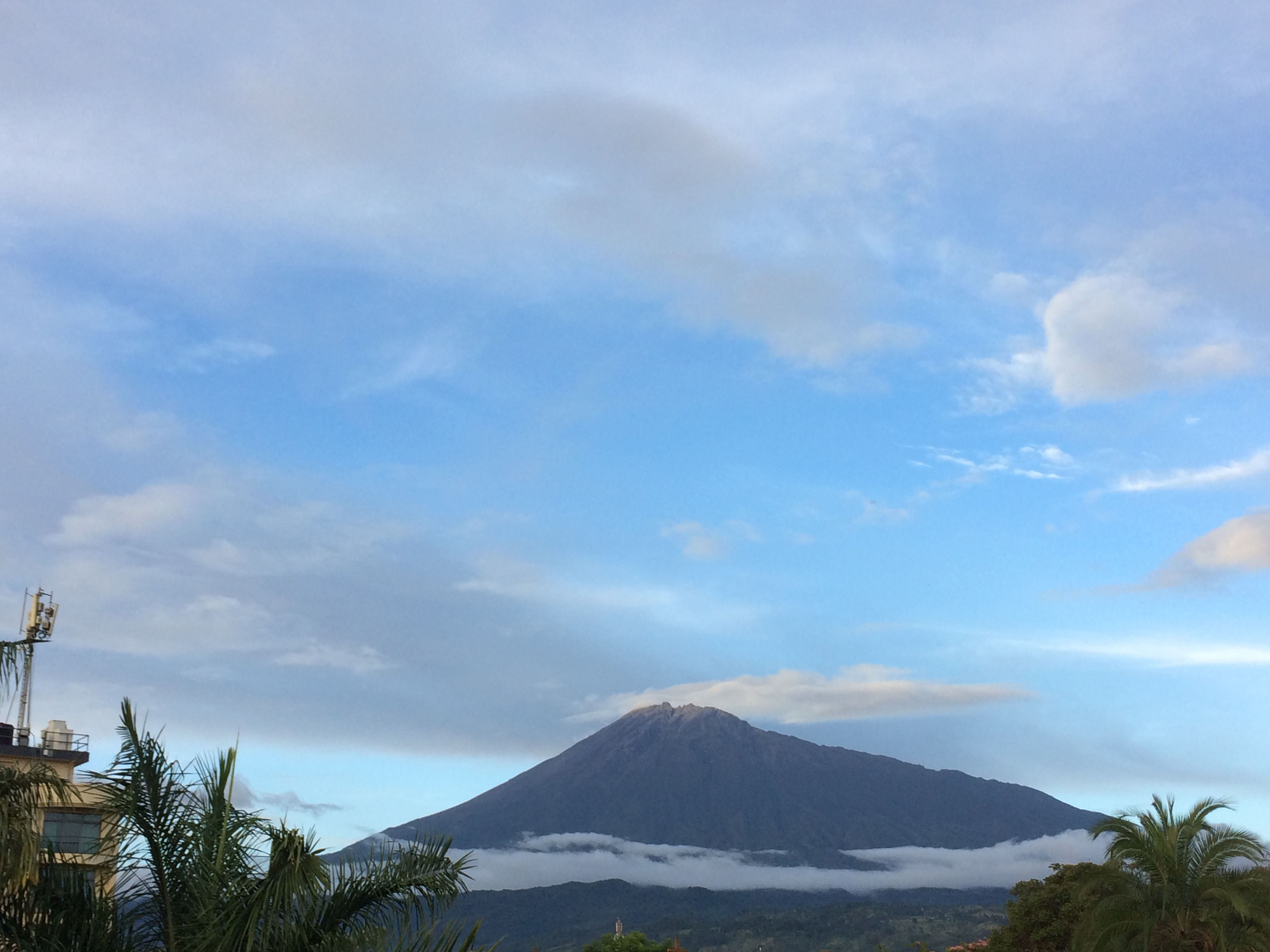 Evening View